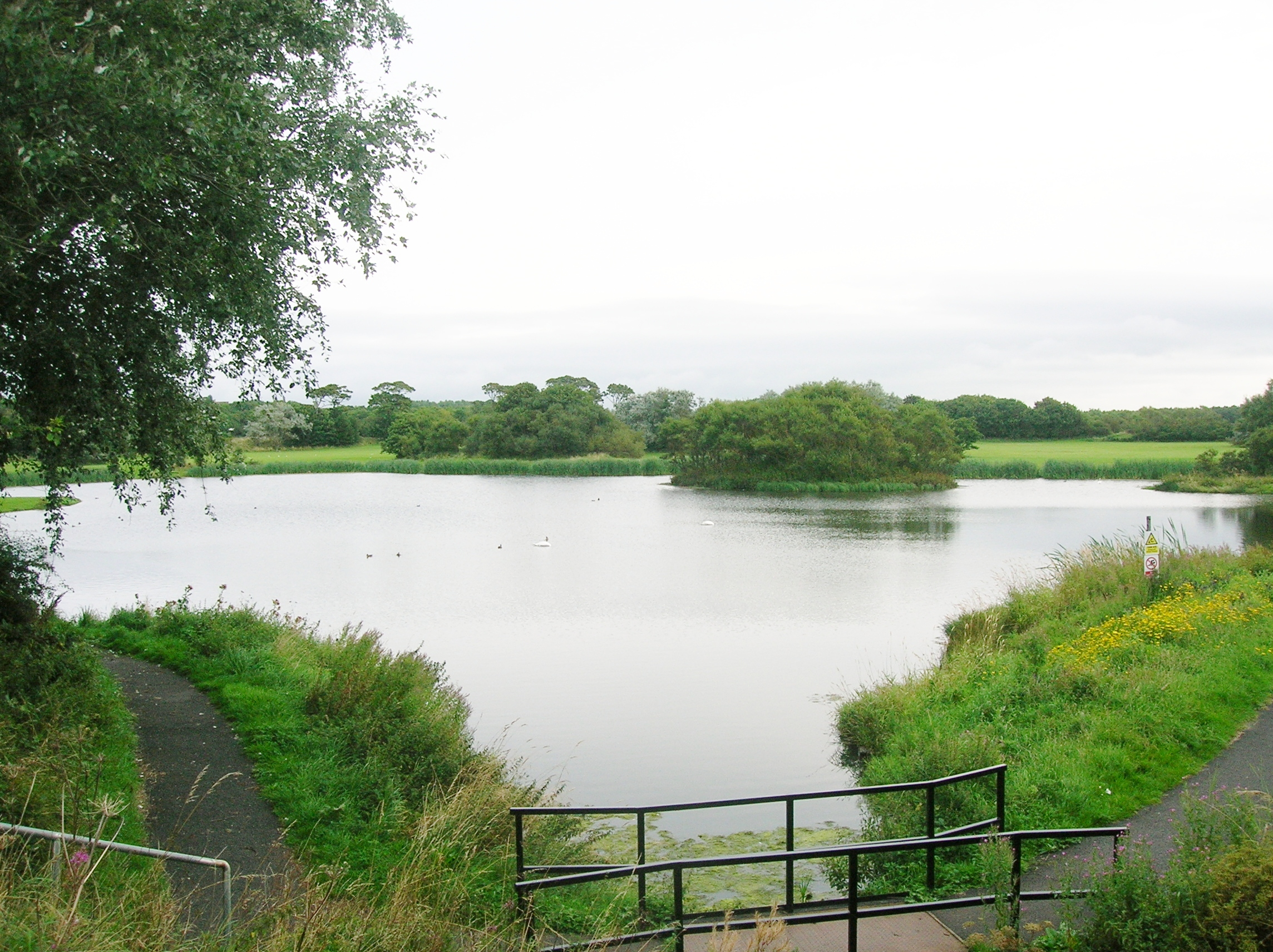 Ardeer Quarry - flooded. View from the pumping station. Stevenston, North Ayrshire, Scotland.